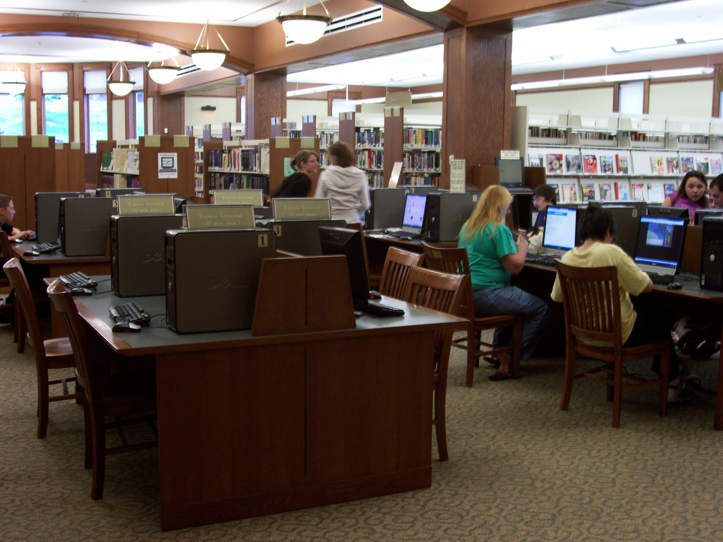 Reference computers